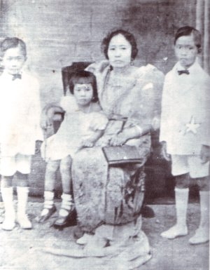 Ferdinand Marcos (right), younger brother Pacifico, younger sister Elizabeth and mother Josefa Edralin. Family picture circa 1925